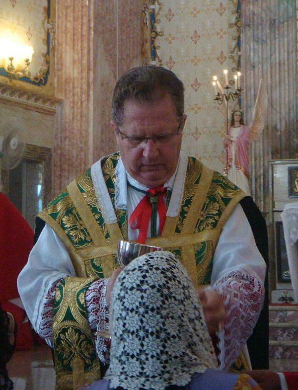 The Bishop of the Personal Apostolic Administration of Saint John Mary Vianney, Dom Fernando Areas Rifan, distributing Holy Communion, in the image of a woman wearing white veil, kneeling in "Communion Table" in the "Main Church" of Campos dos Goytacazes, 2013.